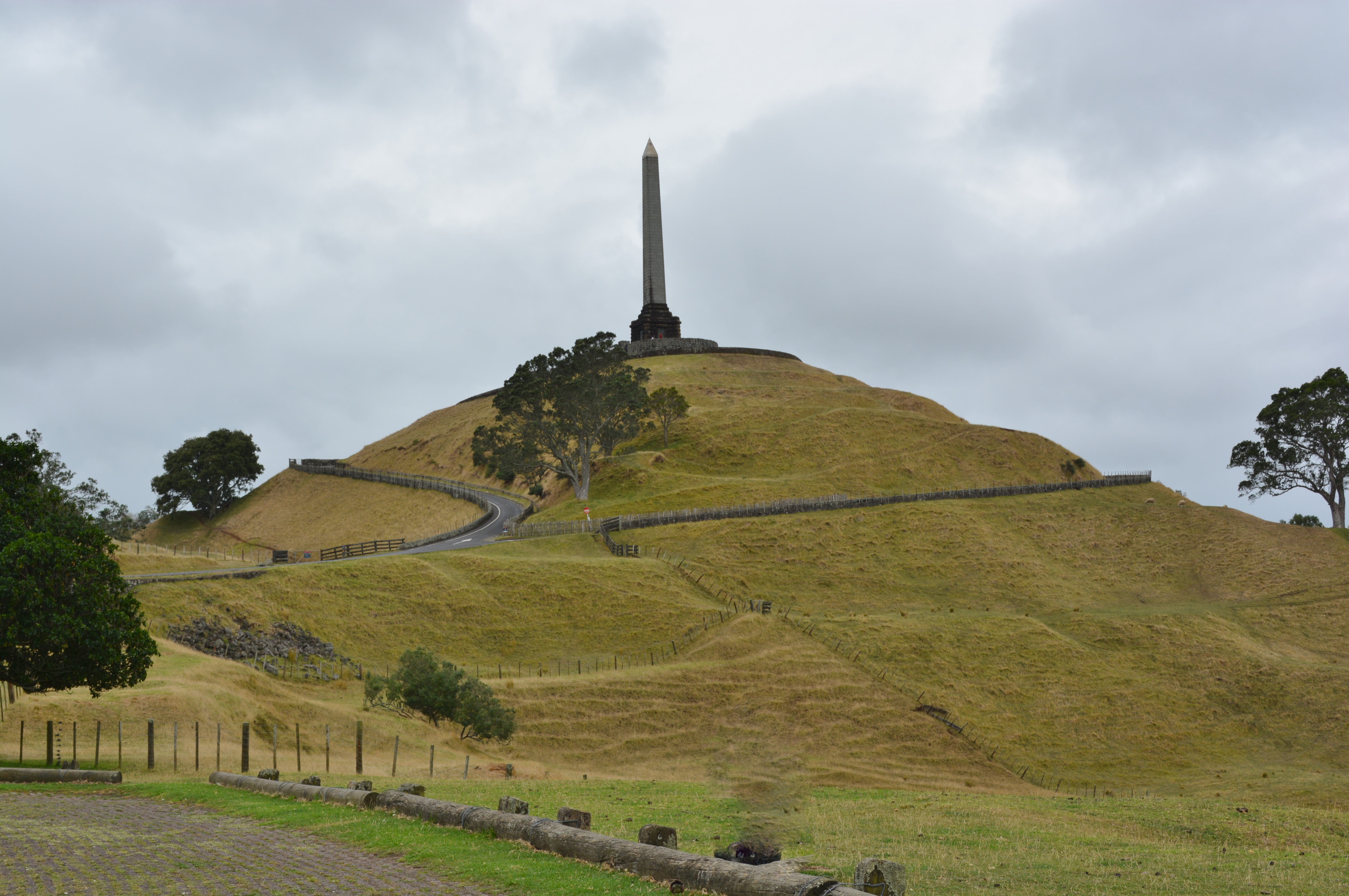 One Tree Hill,Epson Auckland.New Zealand